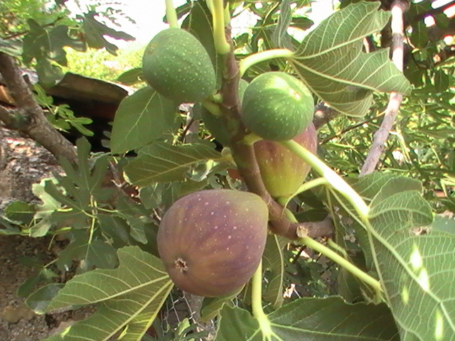 Kričke, Croatia.